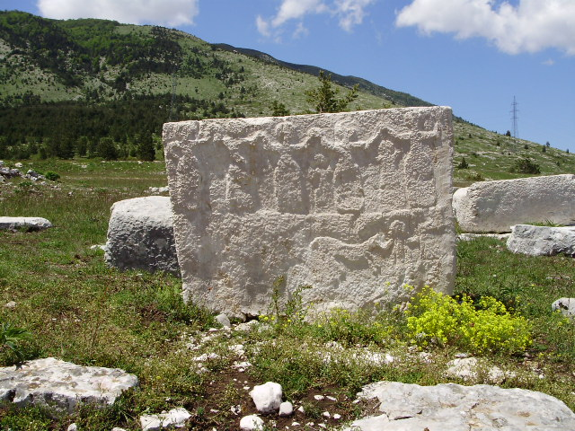 Medieval tombstone